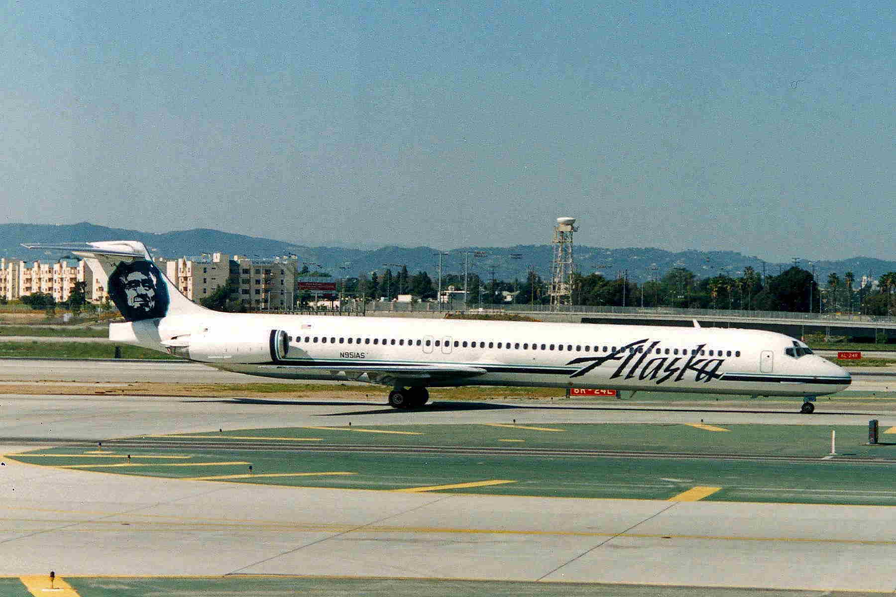 A picture of an airplane